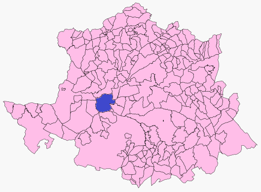 Garrovillas de Alconétar